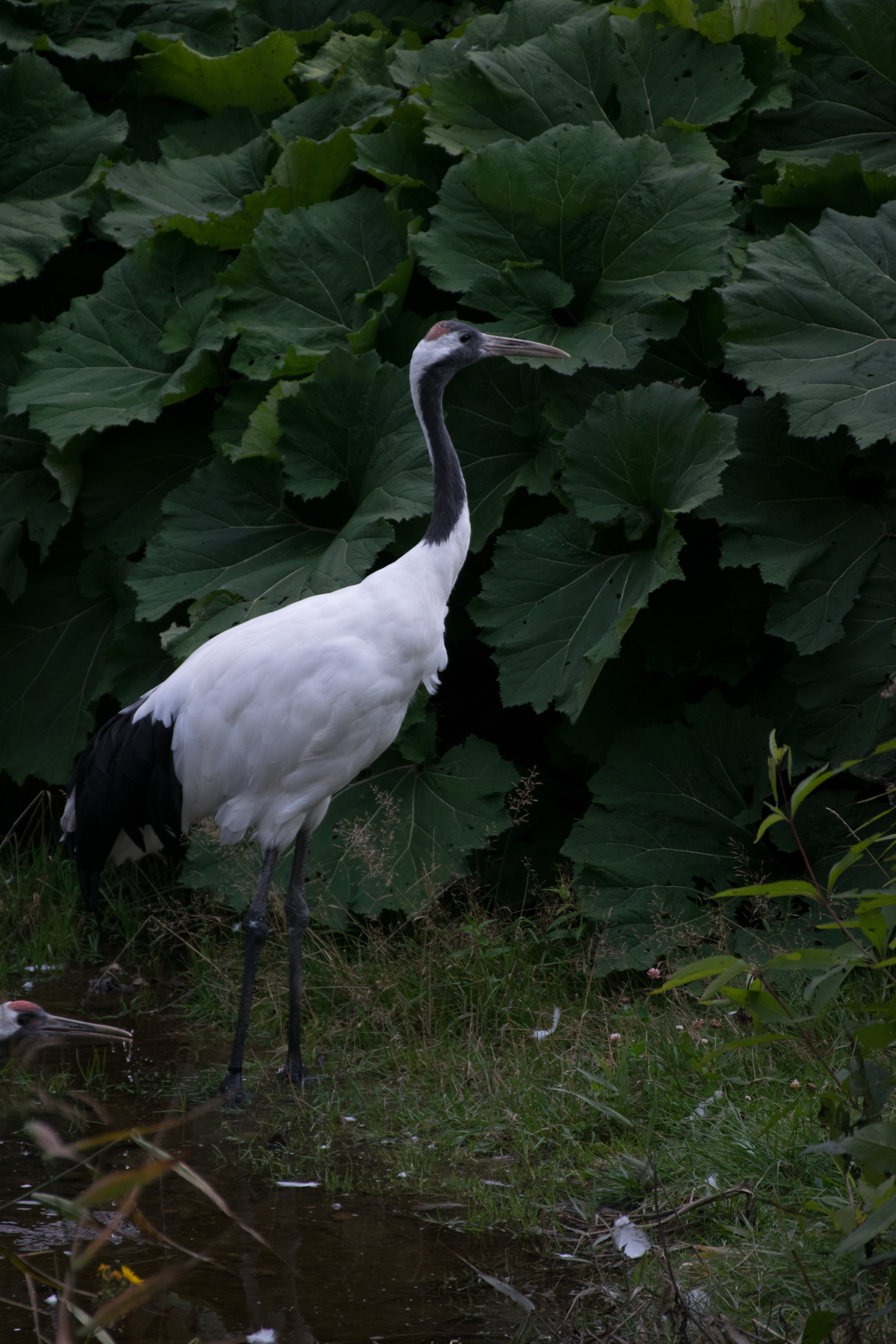 A red-crowned crane at the Wild Zoo of St-Félicien (Quebec, Canada).